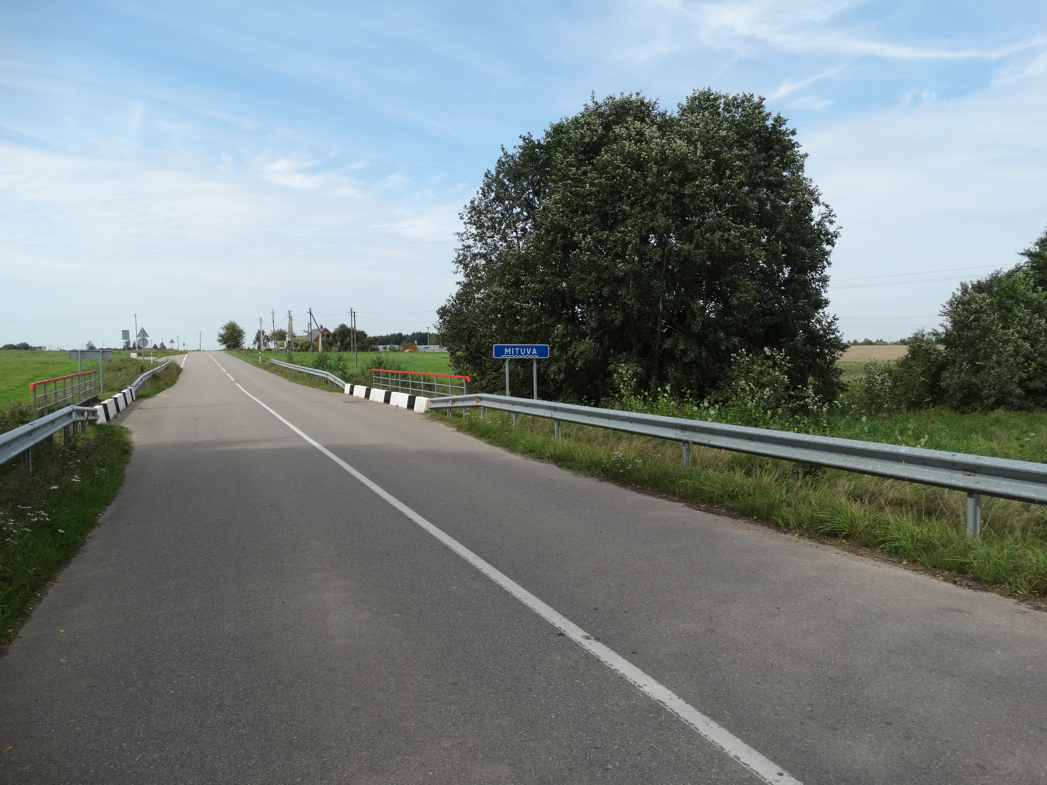 Mišiūnai, Jurbarkas district Lithuania